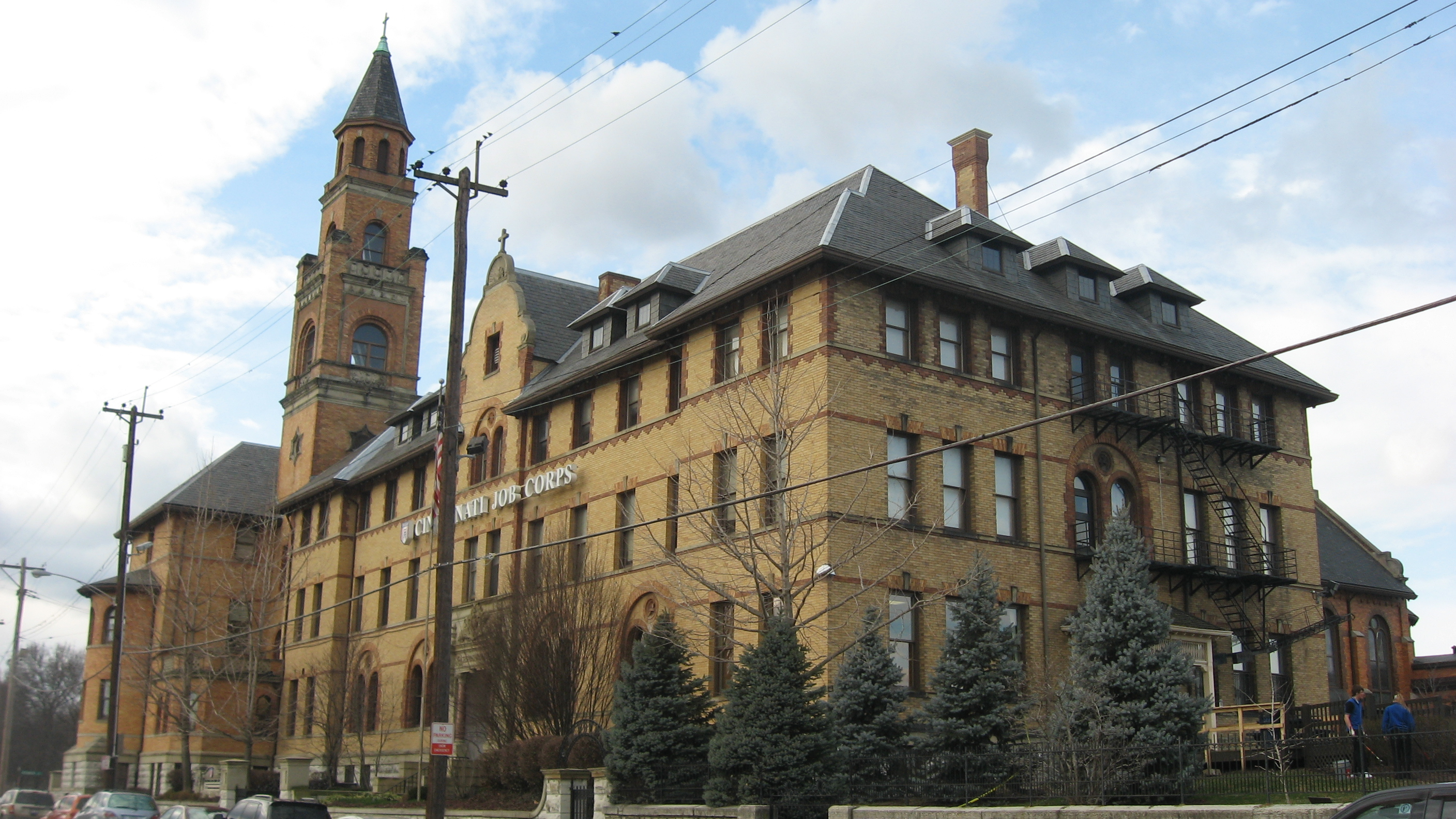 Front and northern side of the former Our Lady of Mercy High School, located at 1409 Western Avenue in the Queensgate neighborhood of Cincinnati, Ohio, United States. Built in 1897 and since converted into a job training center, it is listed on the National Register of Historic Places.